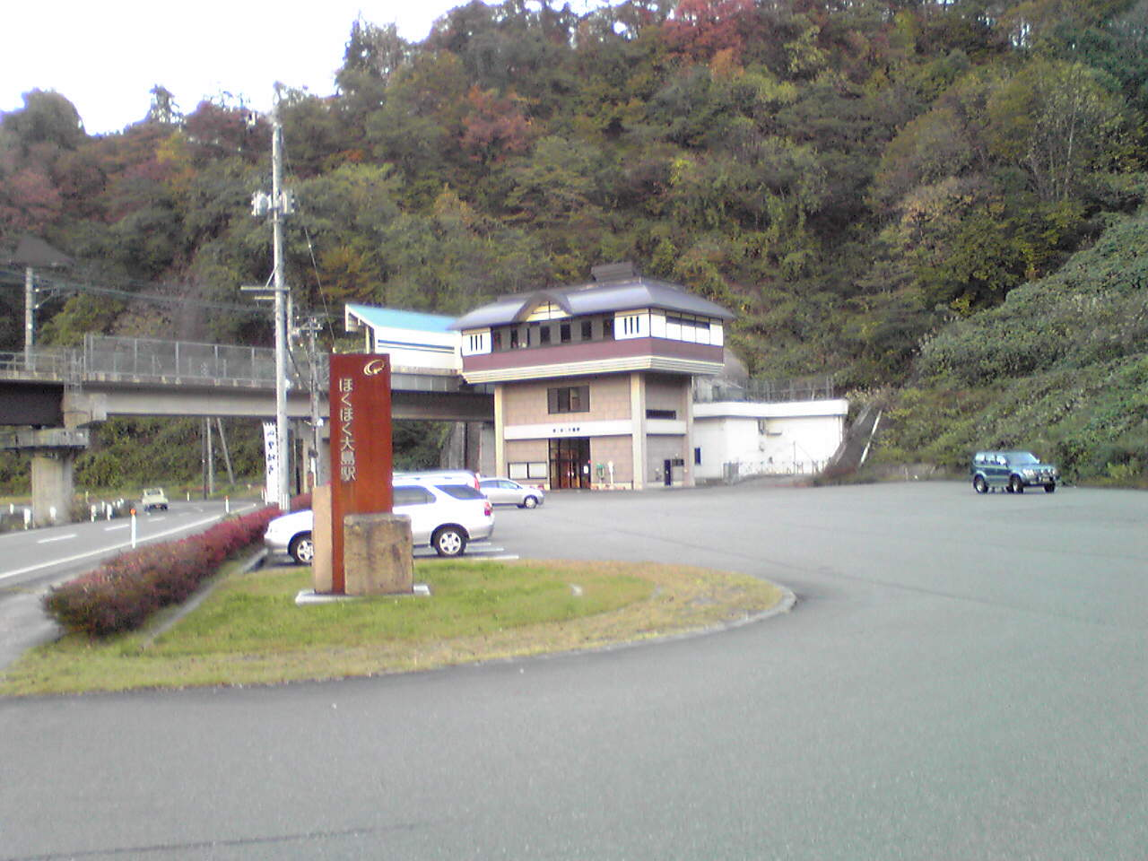 Hokuhoku-Oshima Station on Hokuetsu Express Hokuhoku Line